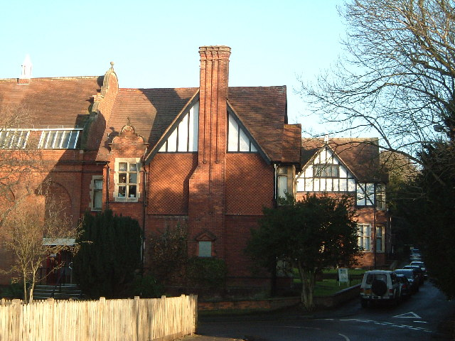 The Walter Rothschild Zoological Museum, Tring This image was taken from the Geograph project collection. See this photograph's page on the Geograph website for the photographer's contact details. The copyright on this image is owned by Rob Farrow and is licensed for reuse under the Creative Commons Attribution-ShareAlike 2.0 license. Attribution: Rob Farrow